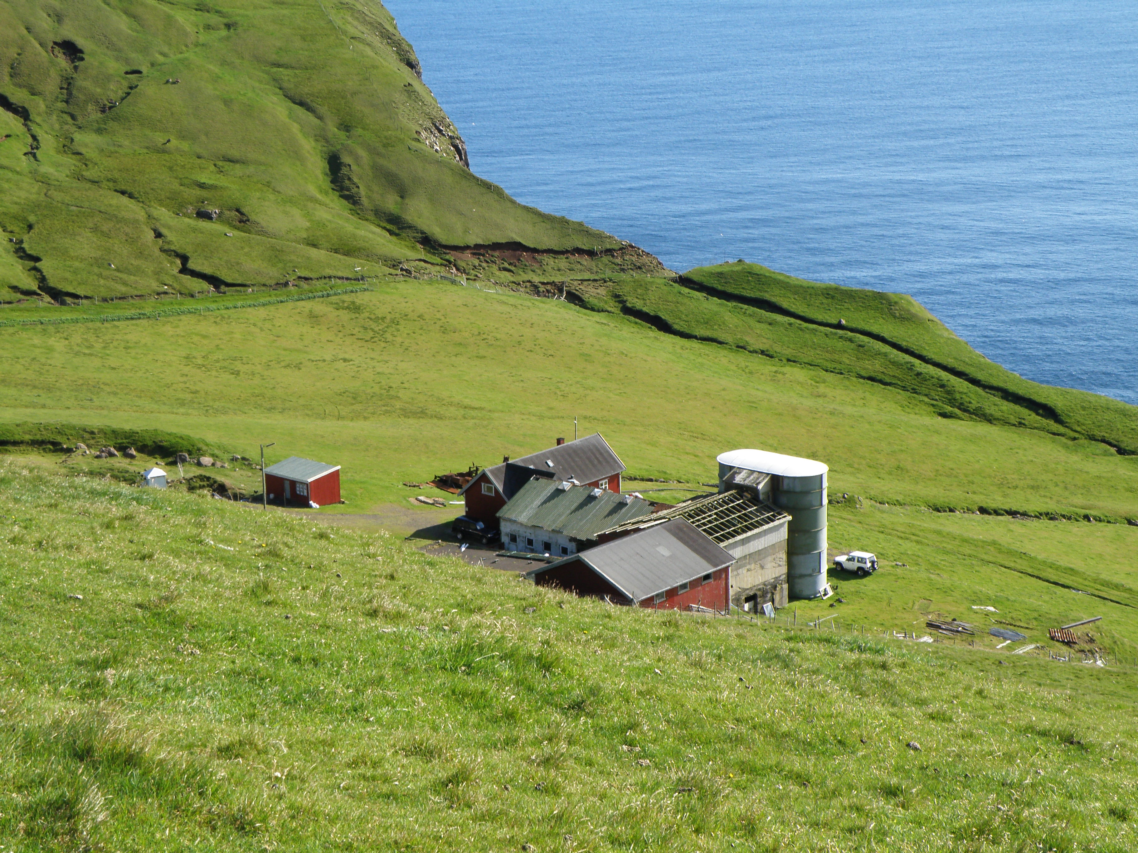 Fámara is a place in the Faroe Islands, located on the west coast of Suðuroy (the southernmost island) a few km north west of Vágur. There used to be small settlement there, but they moved away sometimes in the 1980'ies. In 2010 Fámara was re-settled. There is no harbour in Fámara, the place is around 100 meters above sea level and vertical cliffs on the coast. There are some even higher sea cliffs just north of the farm, more than 200 meters high. Føroyskt: Fámara er í Suðuroynni í Føroyum. Fámara hoyrir til Vág. Har er bert ein bóndagarður, hesin stóð tómur í fleiri ár, eftir at familjan Brattaberg flutti hagani. Har var annars rættiliga nógv virksemi tá, ung fólk komu onkuntíð úr øðrum londum fyri at arbeiða á bóndagarðinum. Í 2010 flutti tvey fólk til Fámara at búgva. Náttúran er sera vøkur kring Fámara, har eru lodrøtt berg 100-200 metrar høg.